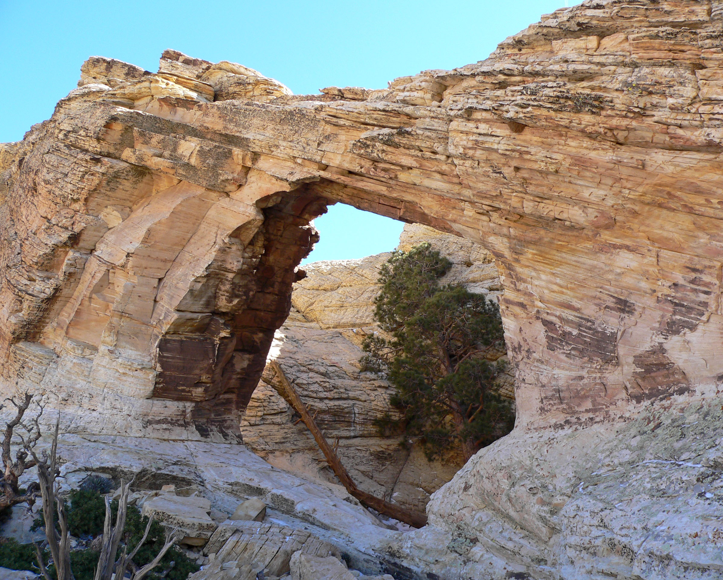 The natural arch/bridge on Bridge Mountain. Within the Red Rock Canyon National Conservation Area, Spring Mountains, southern Nevada.